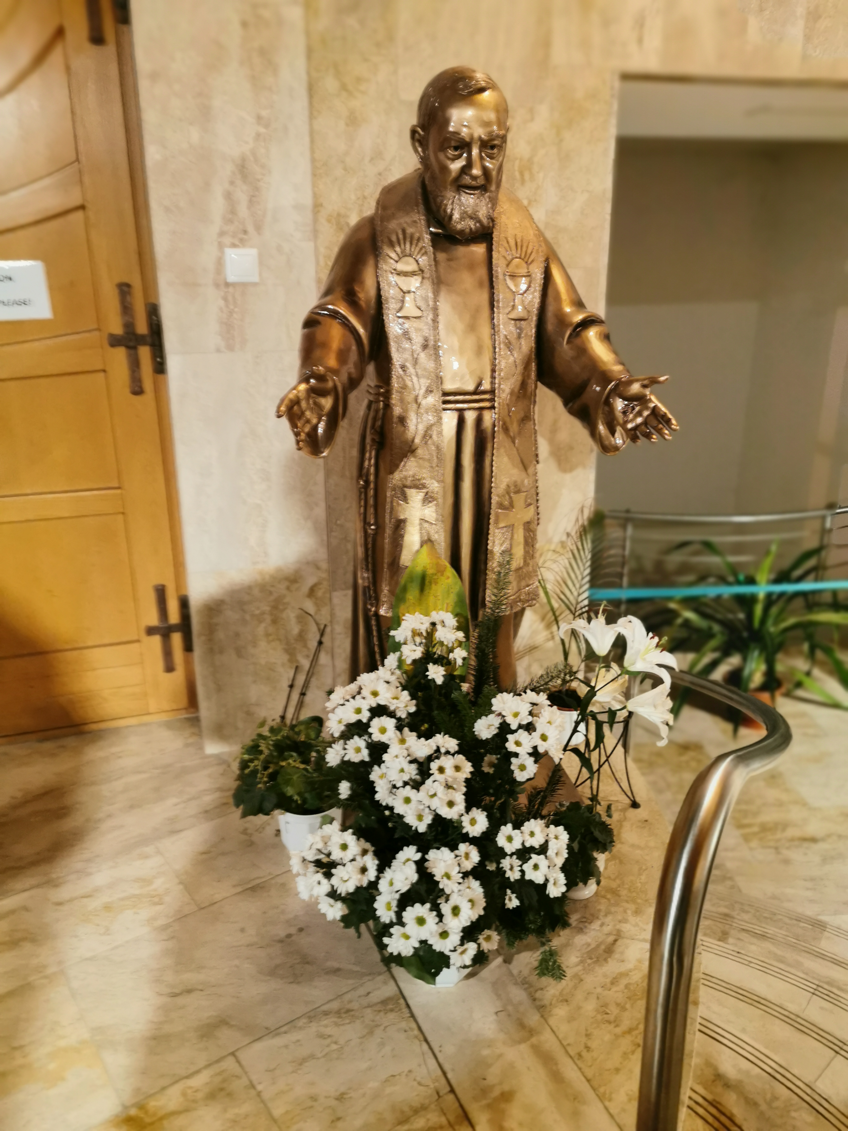 Holy Angels Church in Gazdagrét. Budapest, Hungary.